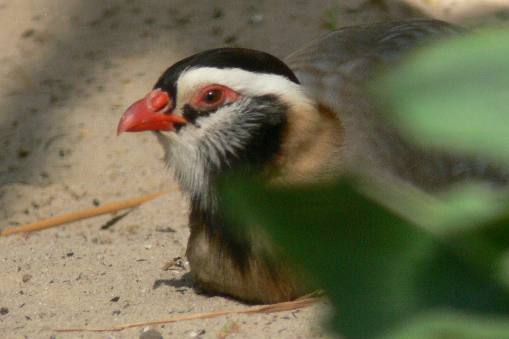 Alectoris melanocephala taken at the Tierpark Berlin, Germany